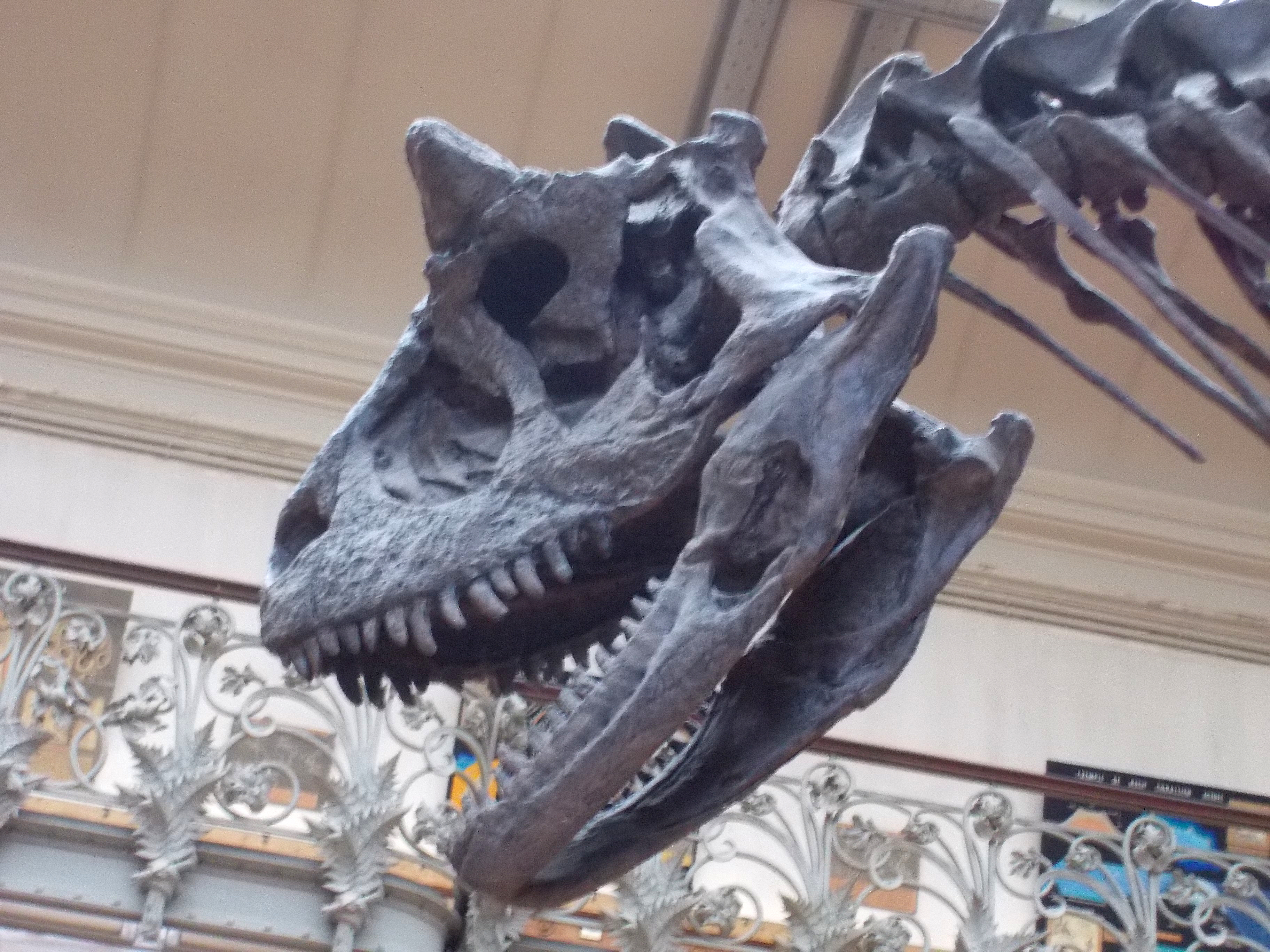 Skull of Carnotaurus